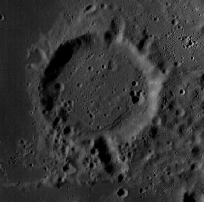 LROC image WAC No. M118471061ME. Calibrated by LROC_WAC_Previewer.